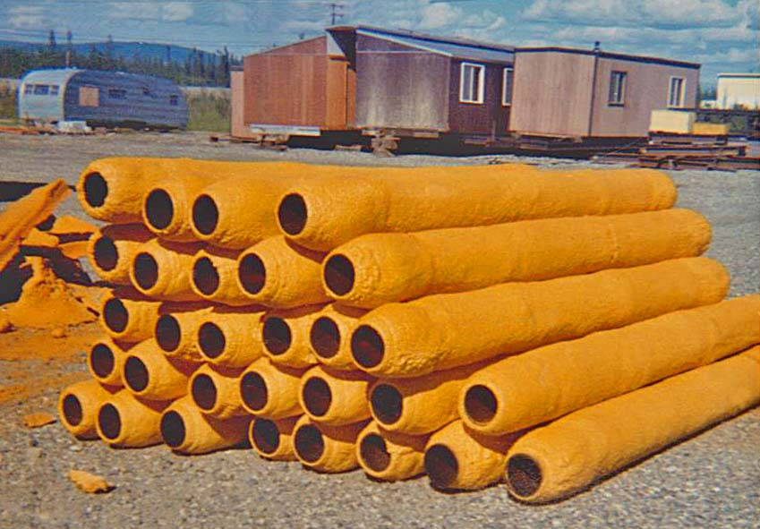 Insulated wooden pipes in Alaska.